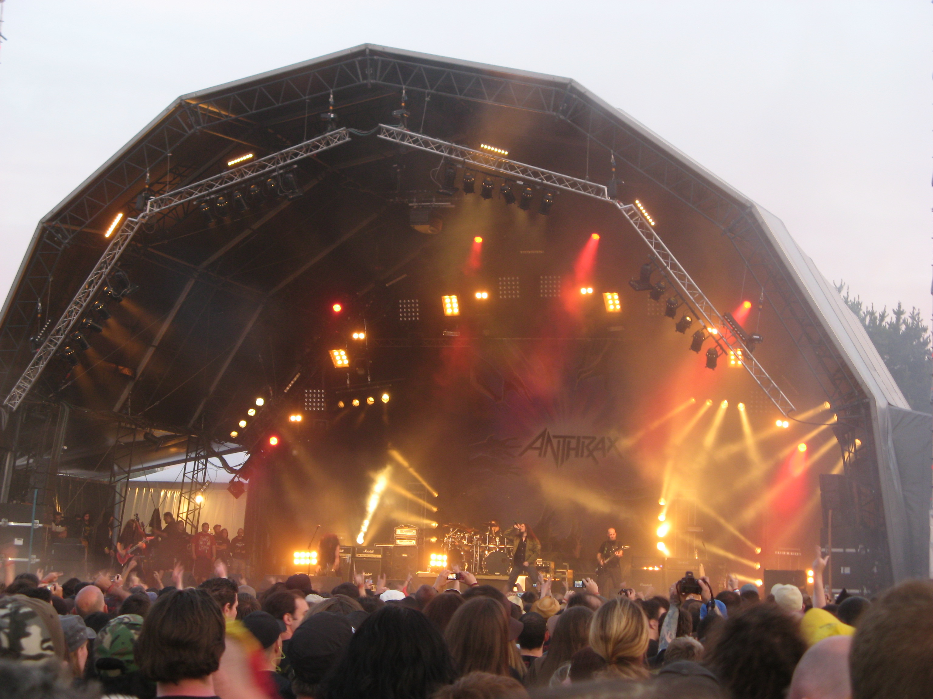 Anthrax at the Hellfest 2009